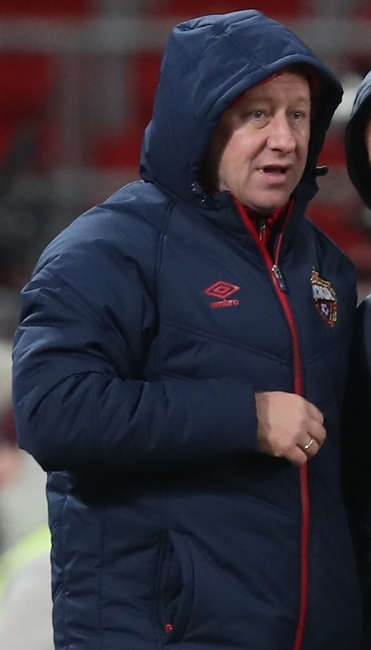 Alyaksandr Yermakovich working with CSKA Moscow in a game against Zenit St. Petersburg.